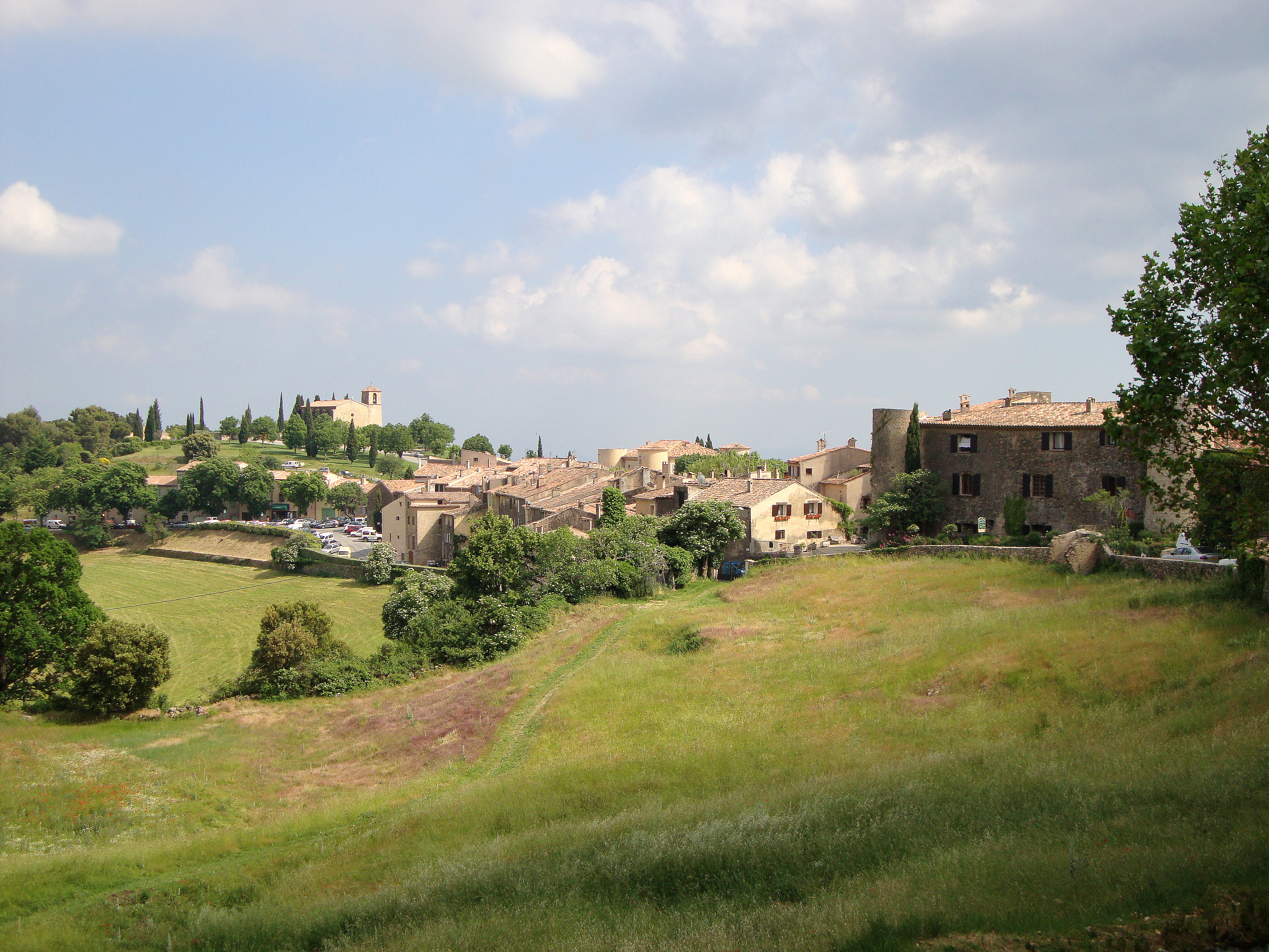 Panorama of Tourtour